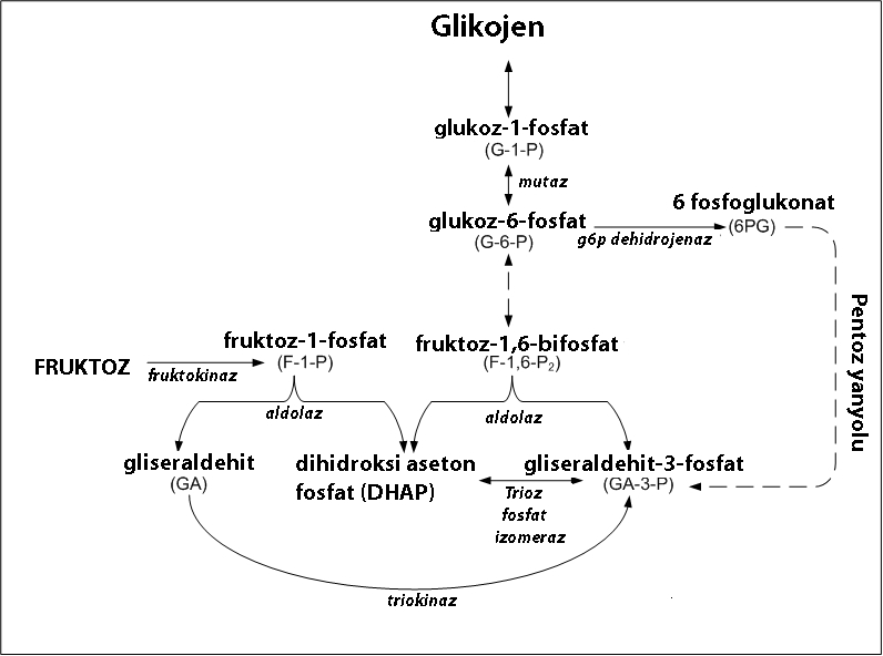 Fructose metabolism to glycogen